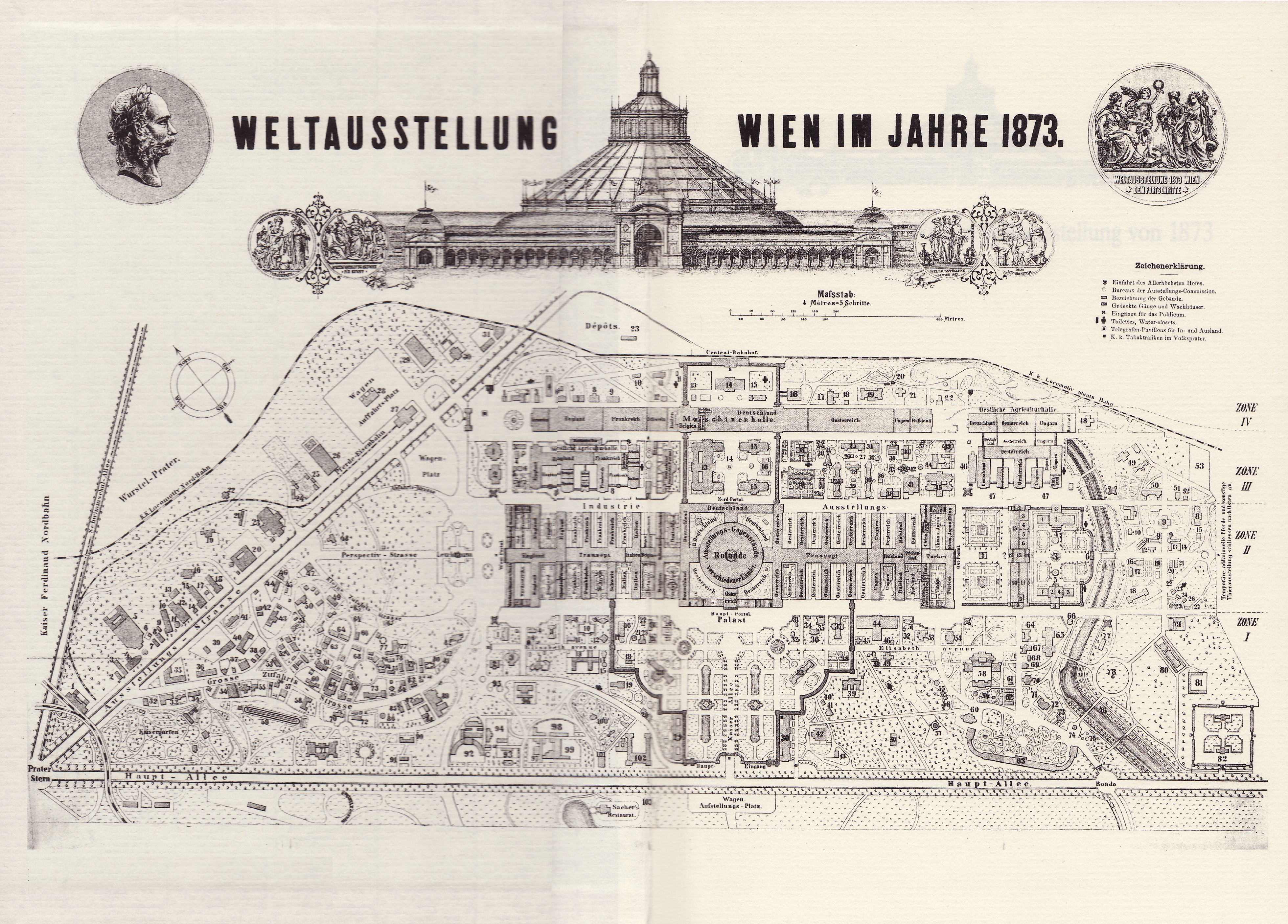 Plan of the Area, Expo 1873